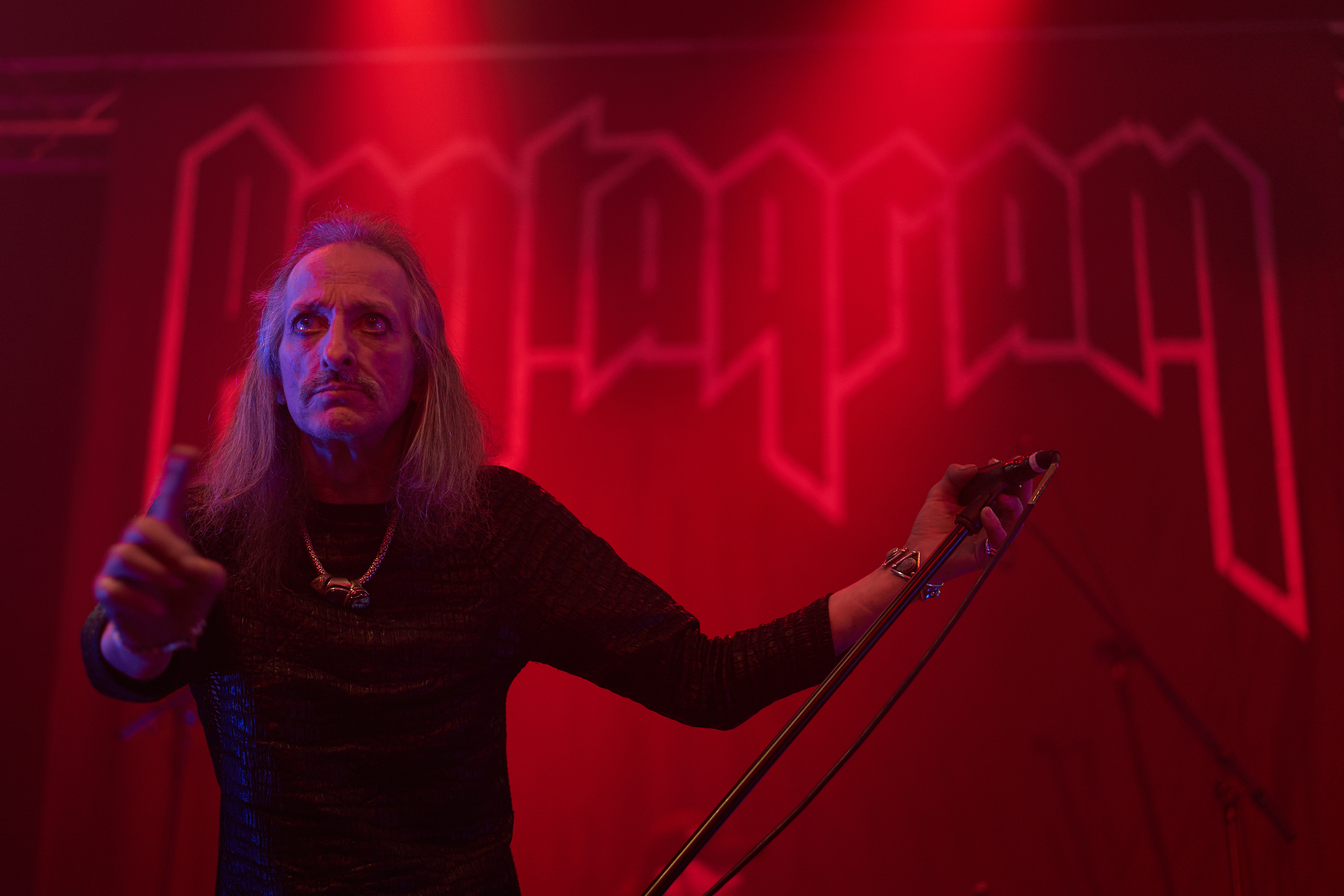 Pentagram at Hammer of Doom Festival, Würzburg, Posthalle, 20.11.2015 Festivalsommer This photo was created with the support of donations to Wikimedia Deutschland in the context of the CPB project "Festival Summer". Personality rights warning Although this work is freely licensed or in the public domain, the person(s) shown may have rights that legally restrict certain re-uses unless those depicted consent to such uses. In these cases, a model release or other evidence of consent could protect you from infringement claims.